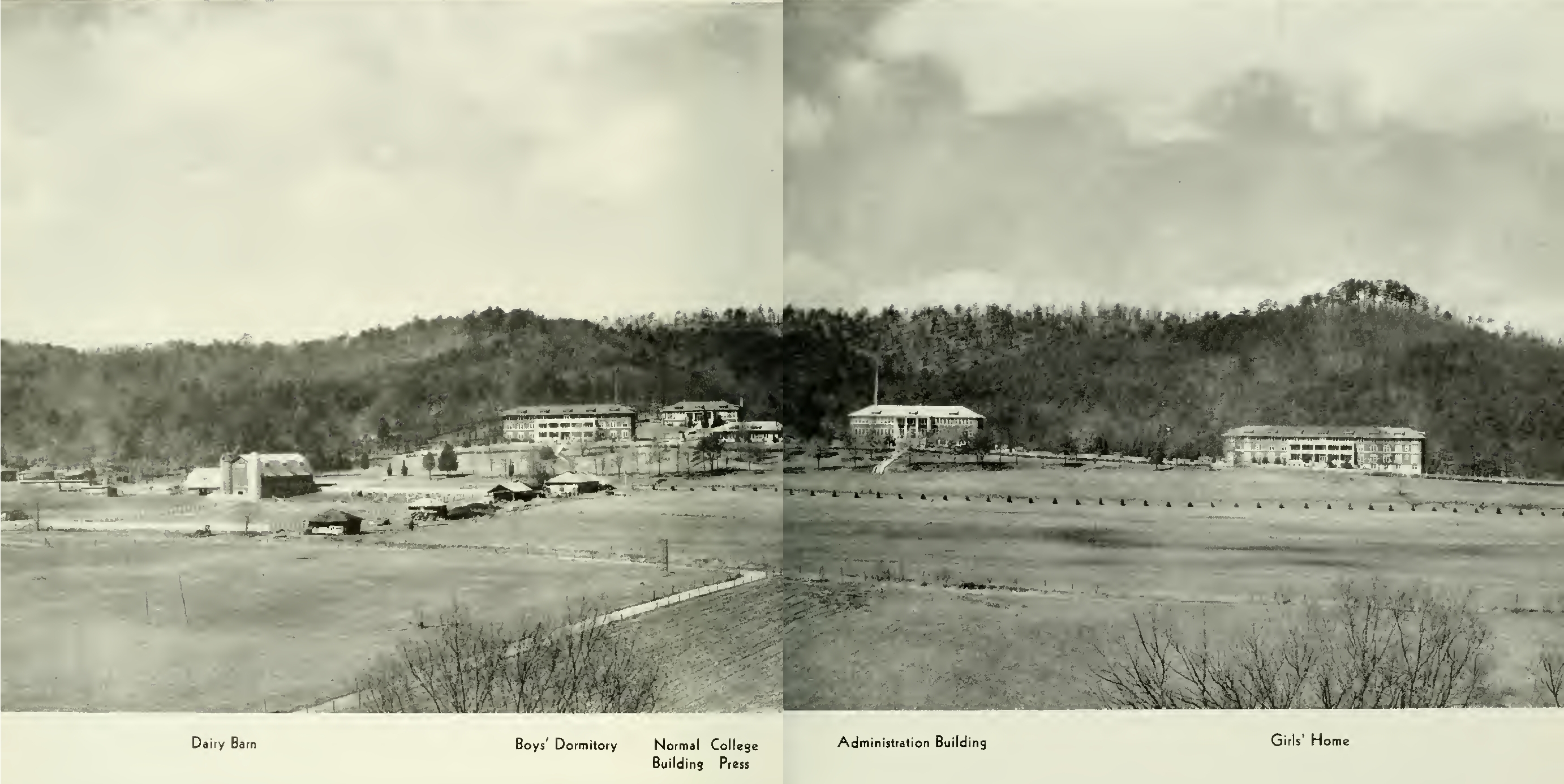 Panoramic view of Southern Junior College in Collegedale from the student journal Triangle, pages 12-13